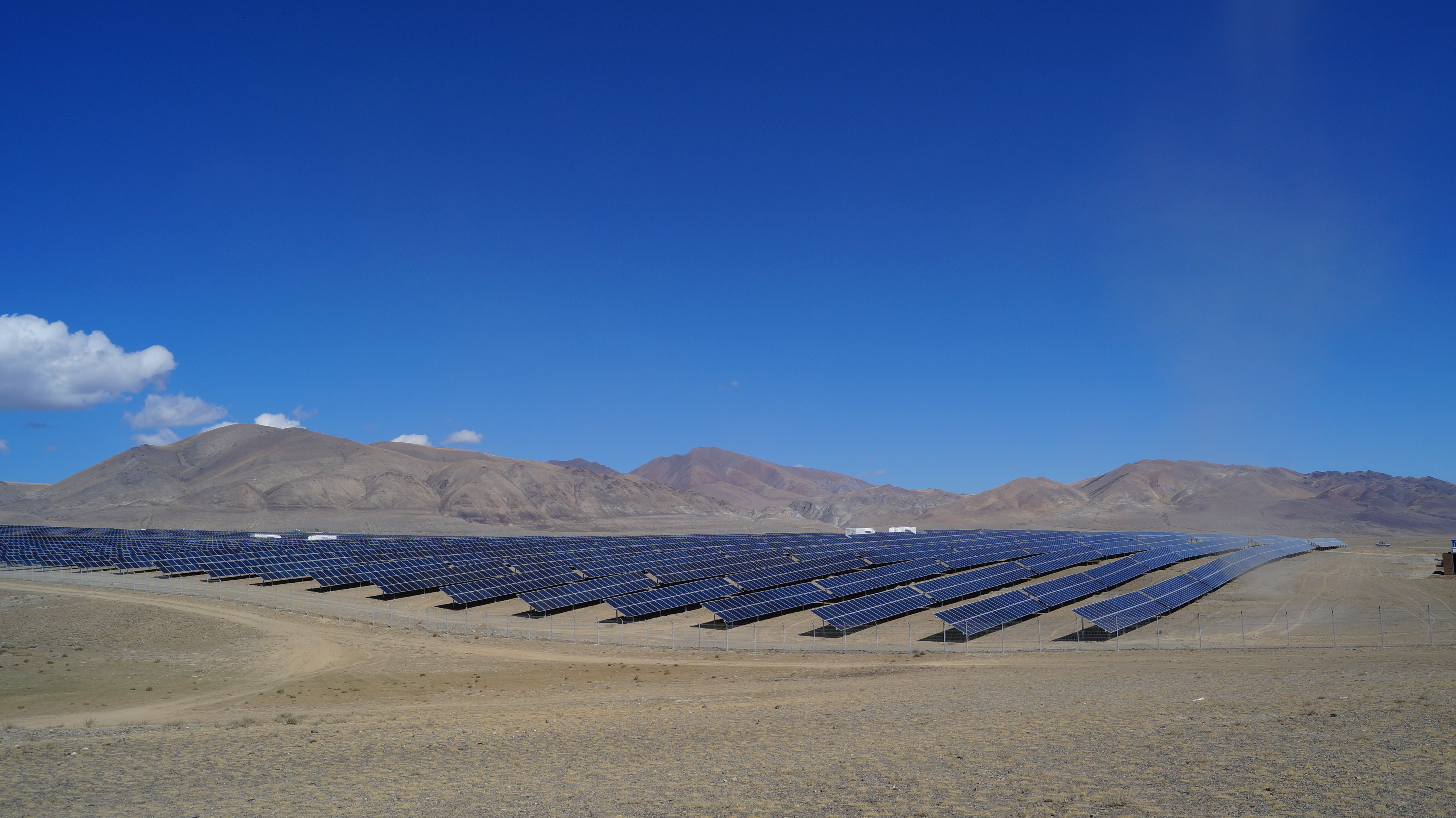 Солнечная электростанция Кош-Агач